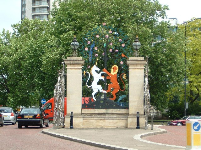 Queen Elizabeth Gate, Hyde Park. Funded by public subscription opened 6 July 1993